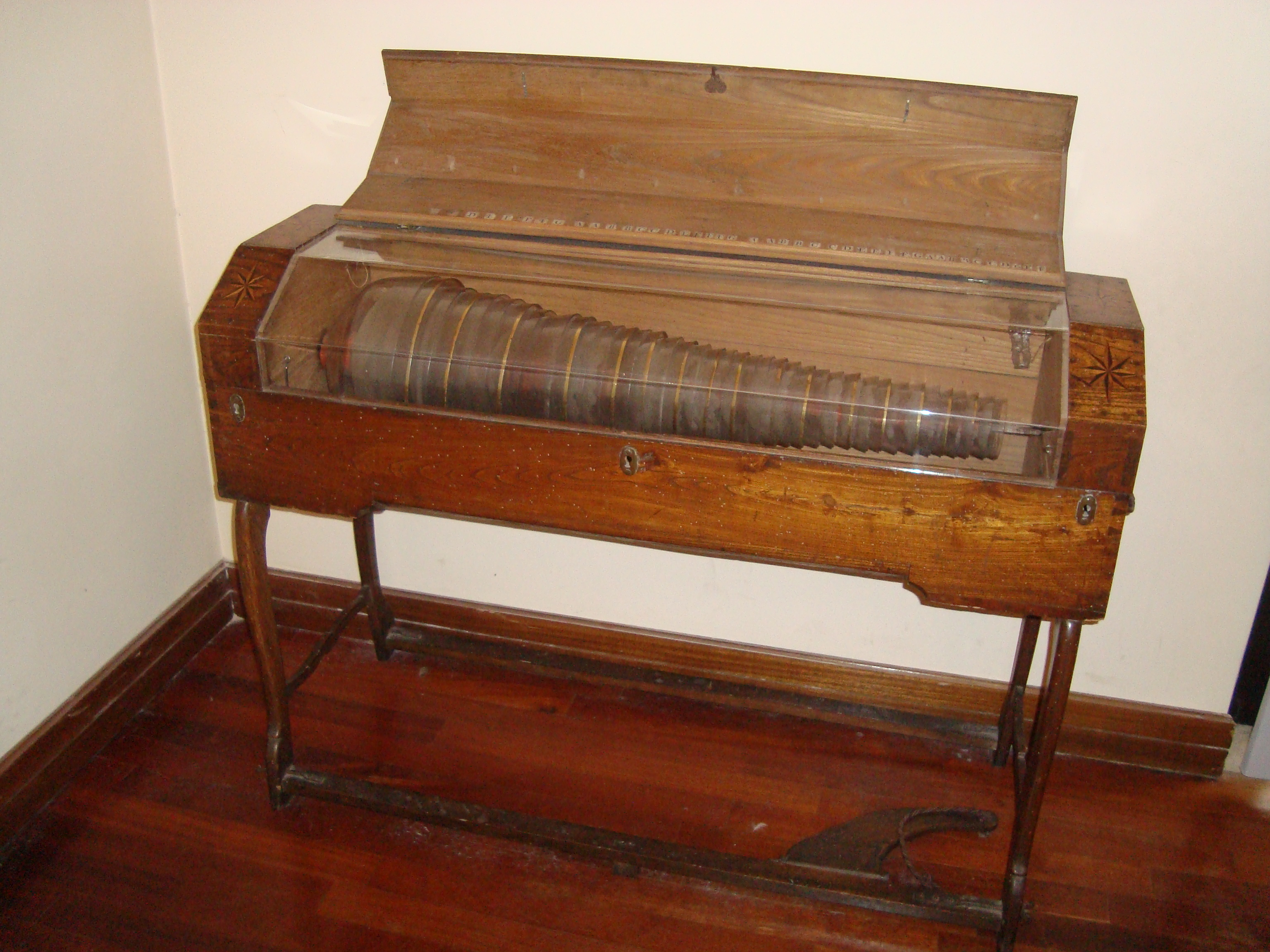 Glassharmonica, end of the 19th century, Museo Nazionale degli Strumenti Musicali di Roma